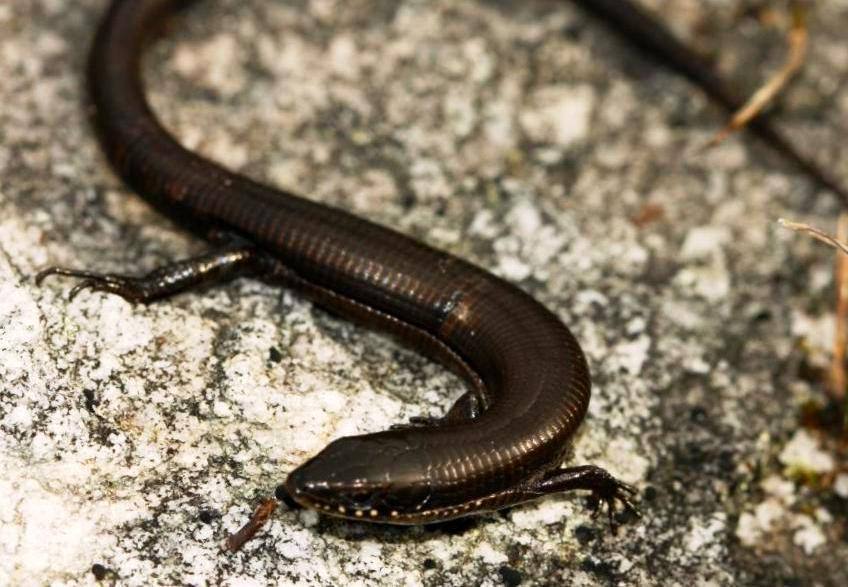 Tetradactylus seps - Cape Town